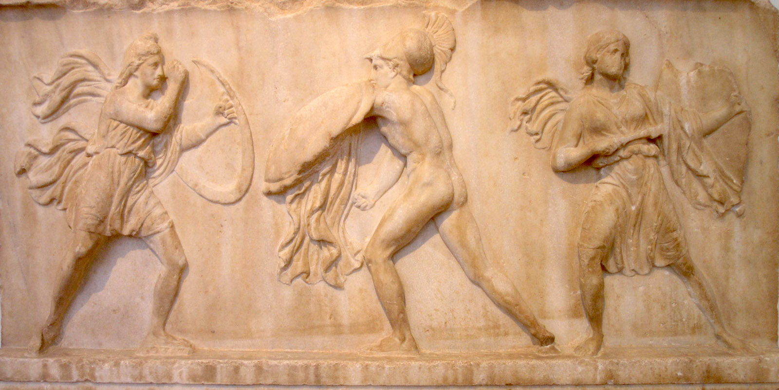 Relief slab from a frieze depicting an amazonomachy, in pentelic marble, dating from mid-4th century BC. Attributed to the school of Bryaxis or Tymotheos. On display in the Room 28 of the National Archaeological Museum in Athens.